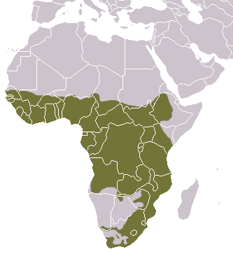 Marsh Mongoose (Atilax paludinosus) range